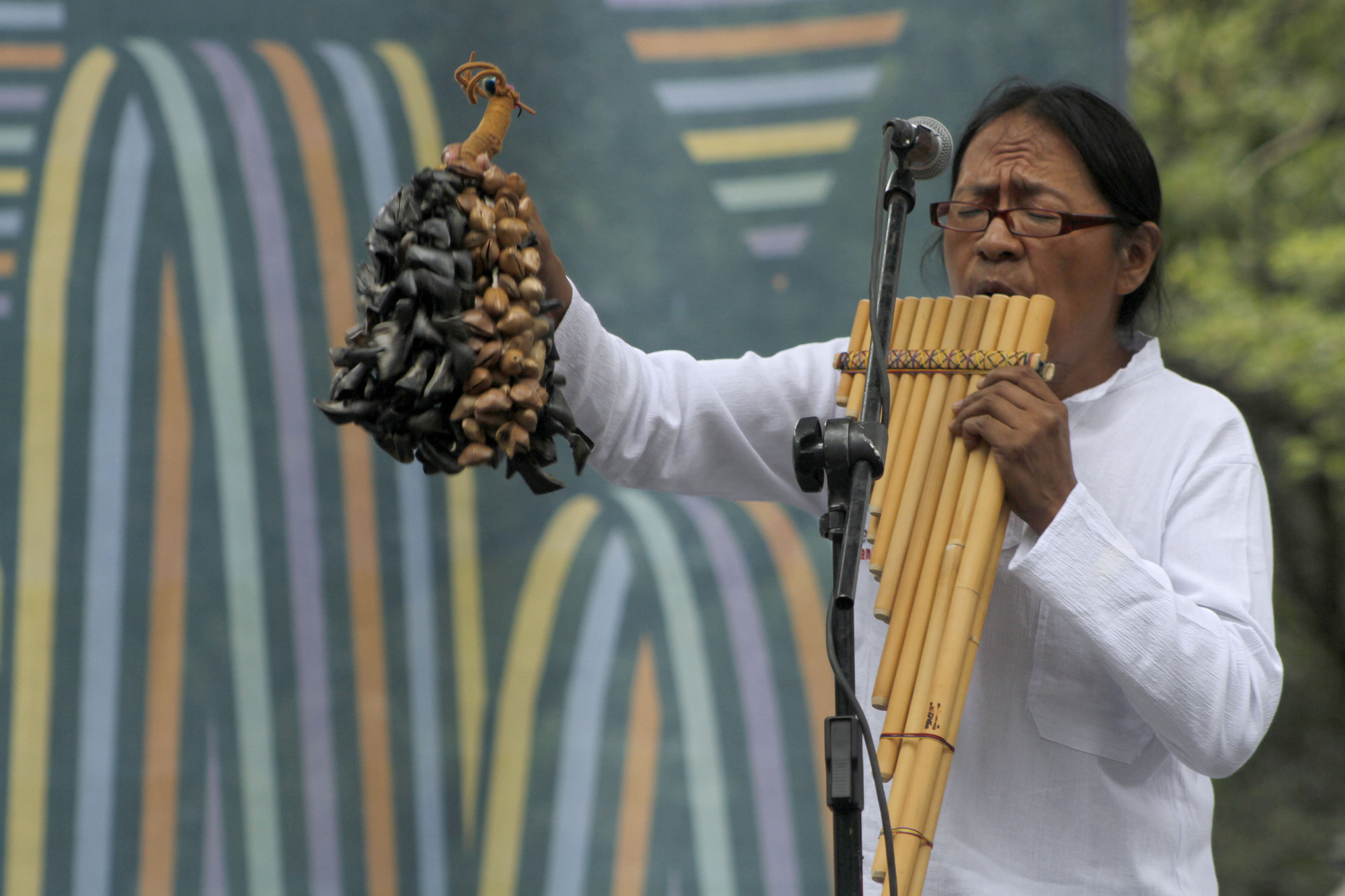 Saturday, 1 June, 2019. A musician plays Andean music from Ecuador in Mexico City. Picture by Maritza Rios / Secretaria de Cultura de la Ciudad de Mexico.